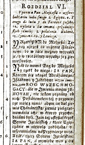 Exodus 6:3 in Polish protestant Gdansk Bible 1632. Including God's name Jehovah.